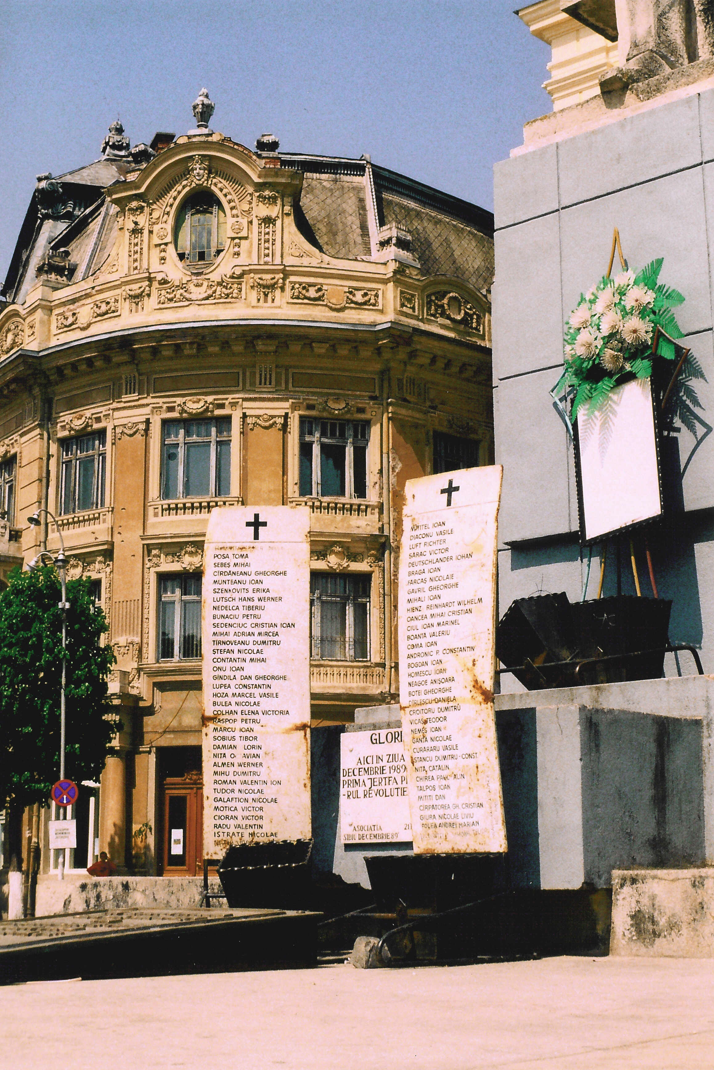 Memorial to the dead of the Romanian Revolution of 1989, Piaţa Mare (Large Square), Sibiu, Romania.